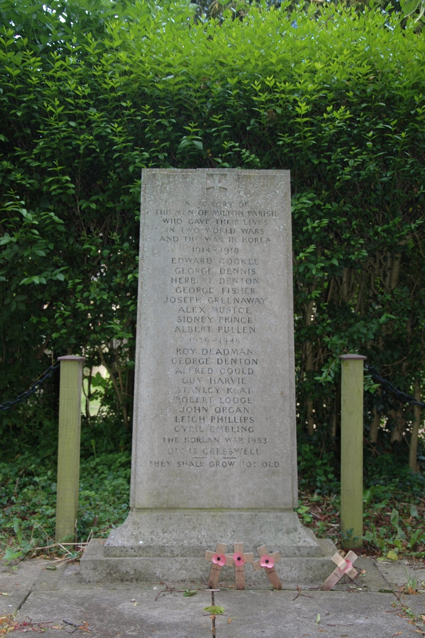 War memorial at Milton, Oxfordshire (formerly Berkshire)